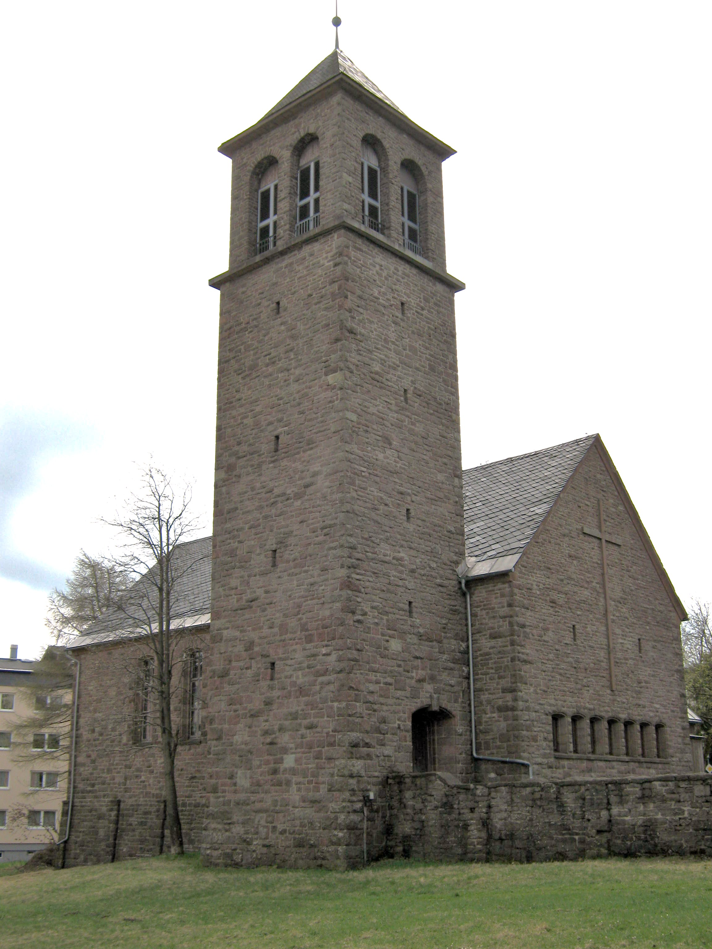 Protestant Christ church in Oberhof, Jägerstraße